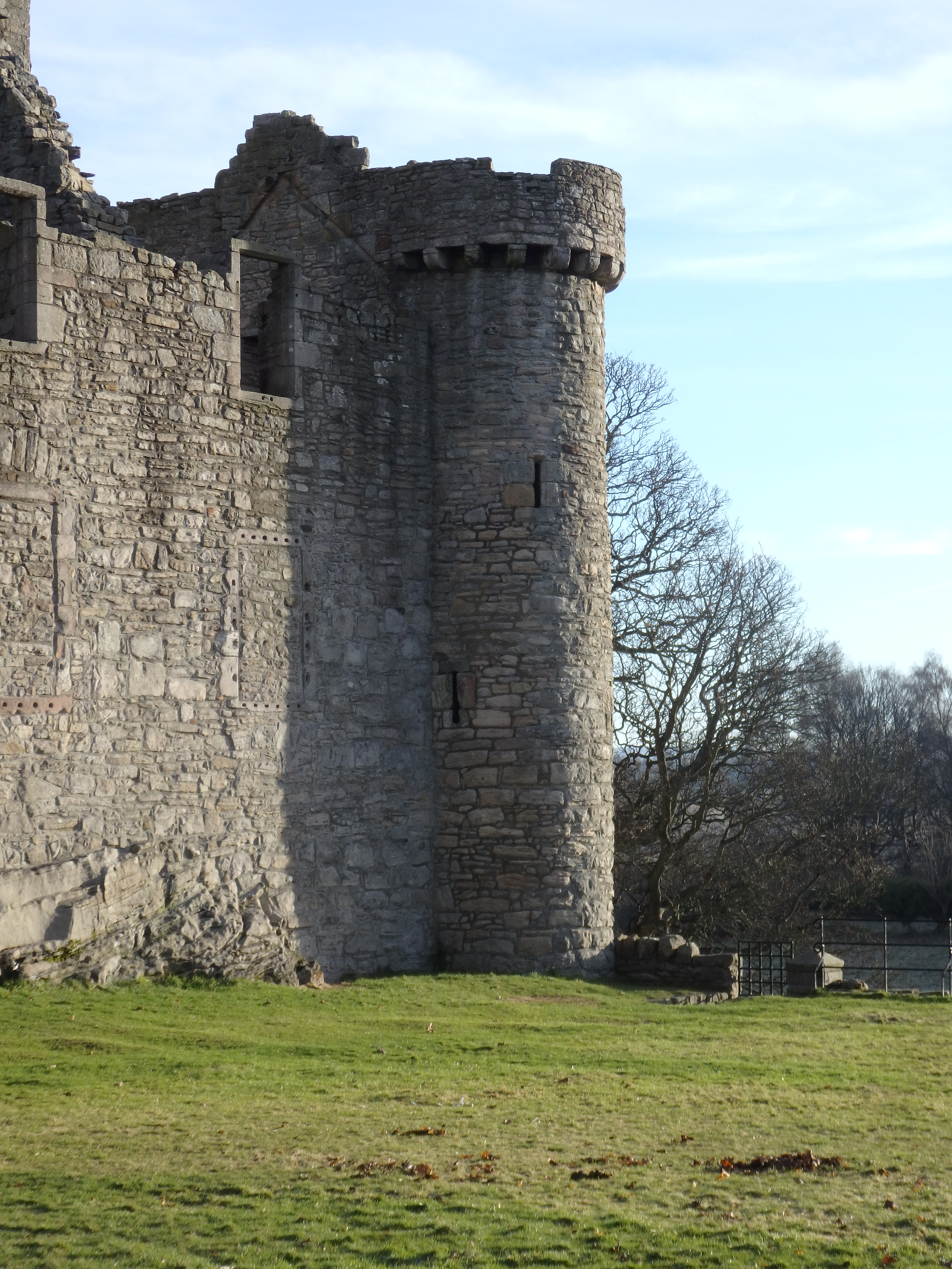 Craigmillar Castle corner tower, Edinburgh.